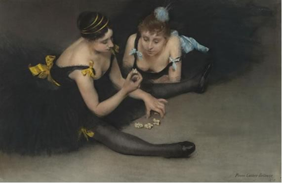 Two Ballerinas